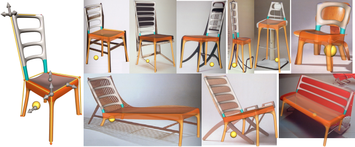 3d models of chairs